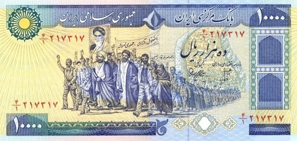 10000 IRR banknote (1981 issue)